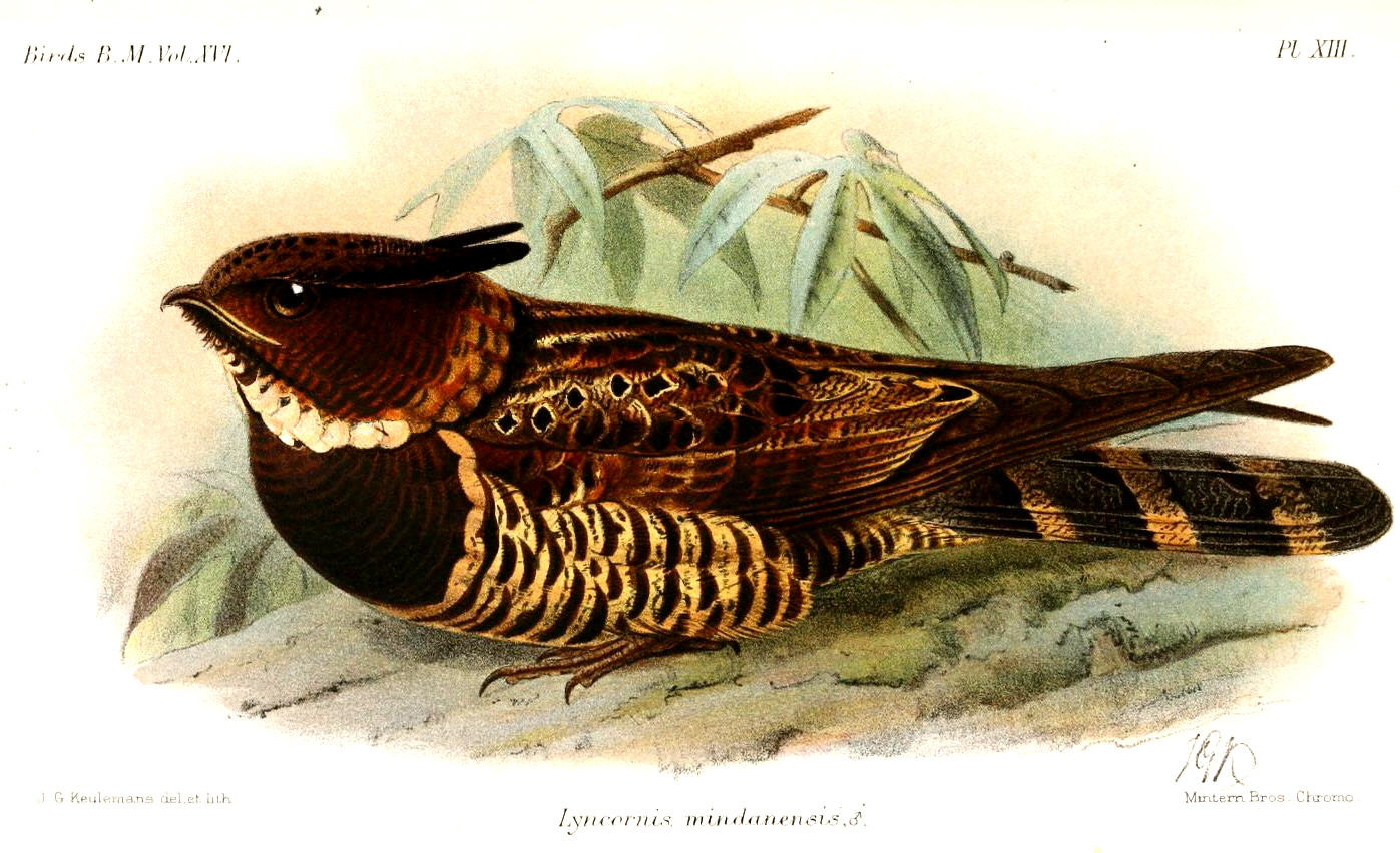 Lyncornis mindanensis = Eurostopodus macrotis, Great Eared-nightjar